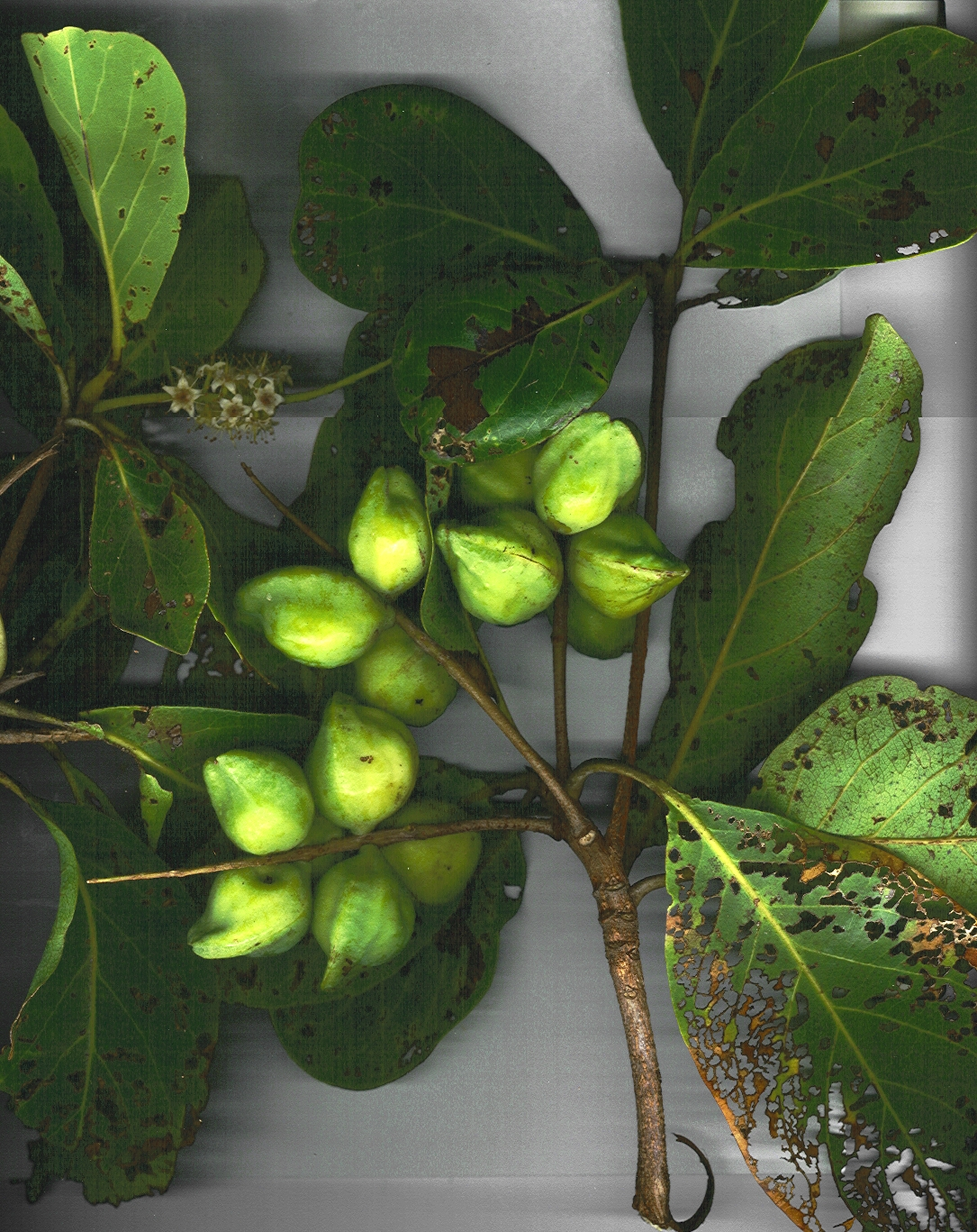 Terminalia melanocarpa (branch with flowers and fruit). Location: Maui, Paia